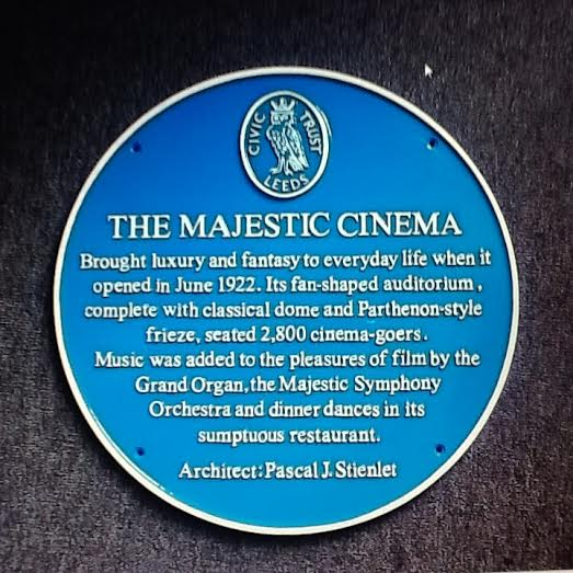 (This image represents an Open Plaques entry)